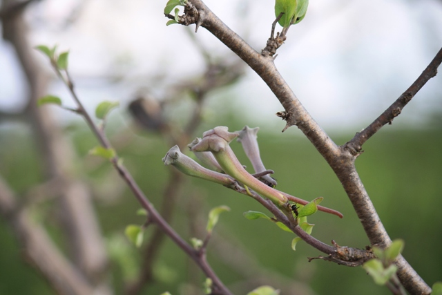 The long velvety buds of sesamothamnus rivae Engl. note the long spur